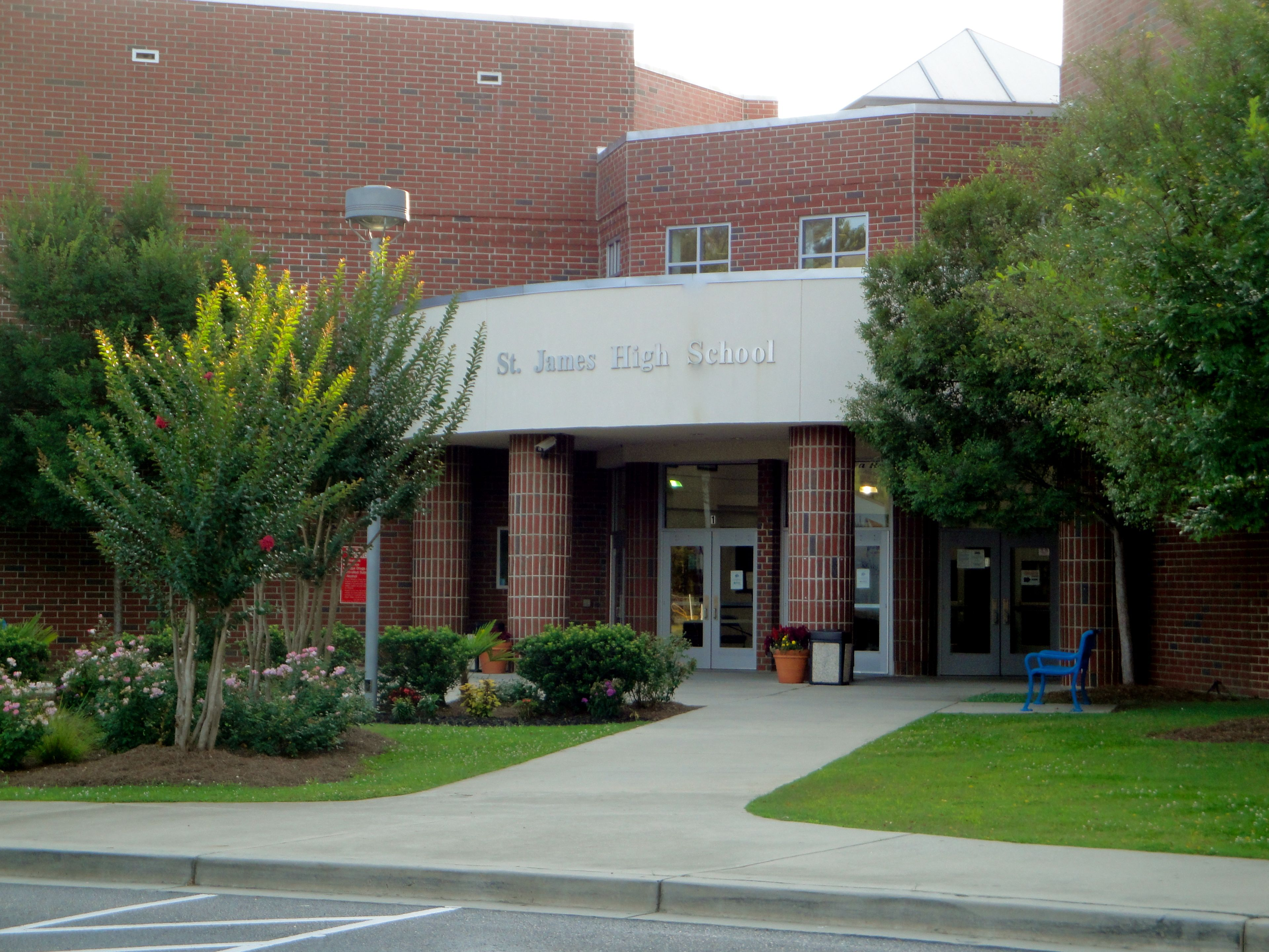 A picture of the front of St. James High School located in Murrells Inlet, SC.